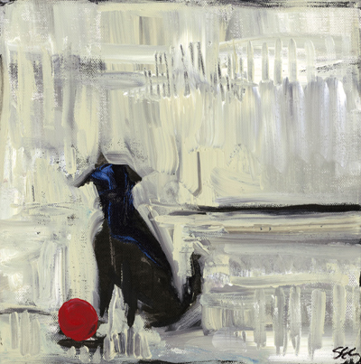 Ink and Acrylic on Canvas 10" x 10"